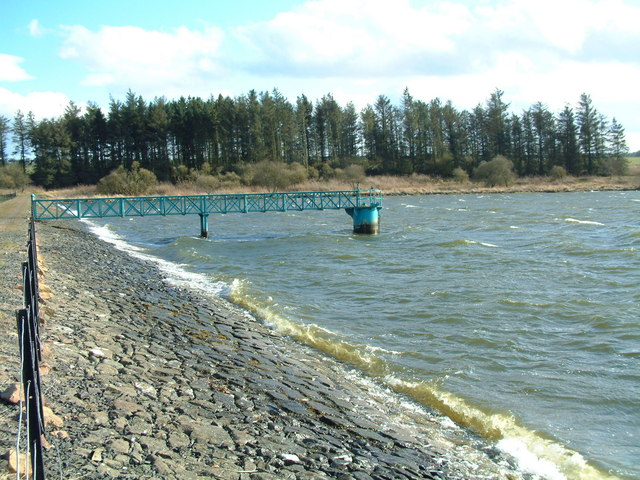 Cameron Reservoir, East dam A stiff breeze whipping up waves on this small reservoir which at one time was used as the water supply for St Andrews.